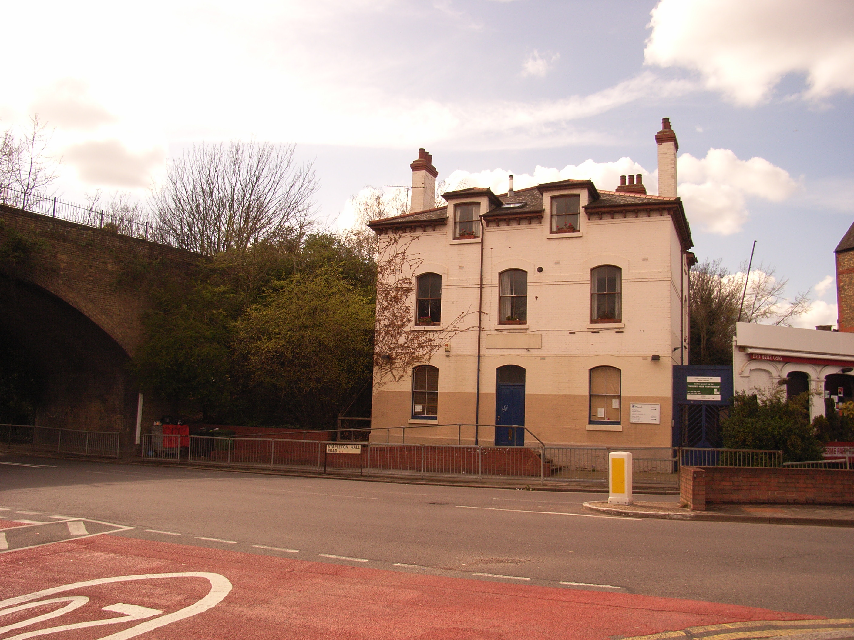 Stroud Green Station House, Stapleton Hall Road, Stroud Green, London, N4.